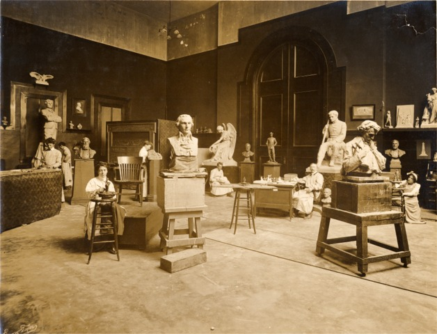 File ID f106p1254 Creator Taylor, Eugene Date.Digital 2002-06-21 Date.Original 1910-1911 Description George Julian Zolnay had just completed the lions for Edward Gardner Lewis' Lion Gates when he became director of the People's University's Art Academy and head of the sculpture division. In this photograph, he is in the studio with several of the sculpture honor students. Christian Kiehl is on the left at the high bench. Caroline Risque is on the left working on a piece of sculpture on a stool. Zolnay is seated at the desk just right of center. Nancy Coonsman is kneeling on the far right. The large pieces of sculpture in the room are Zolnay's work. Source Photograph, mounted on scrapbook paper, upper right corner torn, 9.37" by 7.20" Subject University City (Mo.)--Pictorial Works Subject Zolnay, George Julian, 1863- Subject Coonsman, Nancy Subject Kiehl, Christina Subject Risque, Caroline Subject Art Academy (University City, Mo.) Subject Art Academy Building-Interior (University City, Mo.) Subject People's University (University City, Mo.) Subject.Keyword Sculpture Subject.Keyword People--Missouri--University City Title George Julian Zolnay with sculpture students at Art Academy of People's University